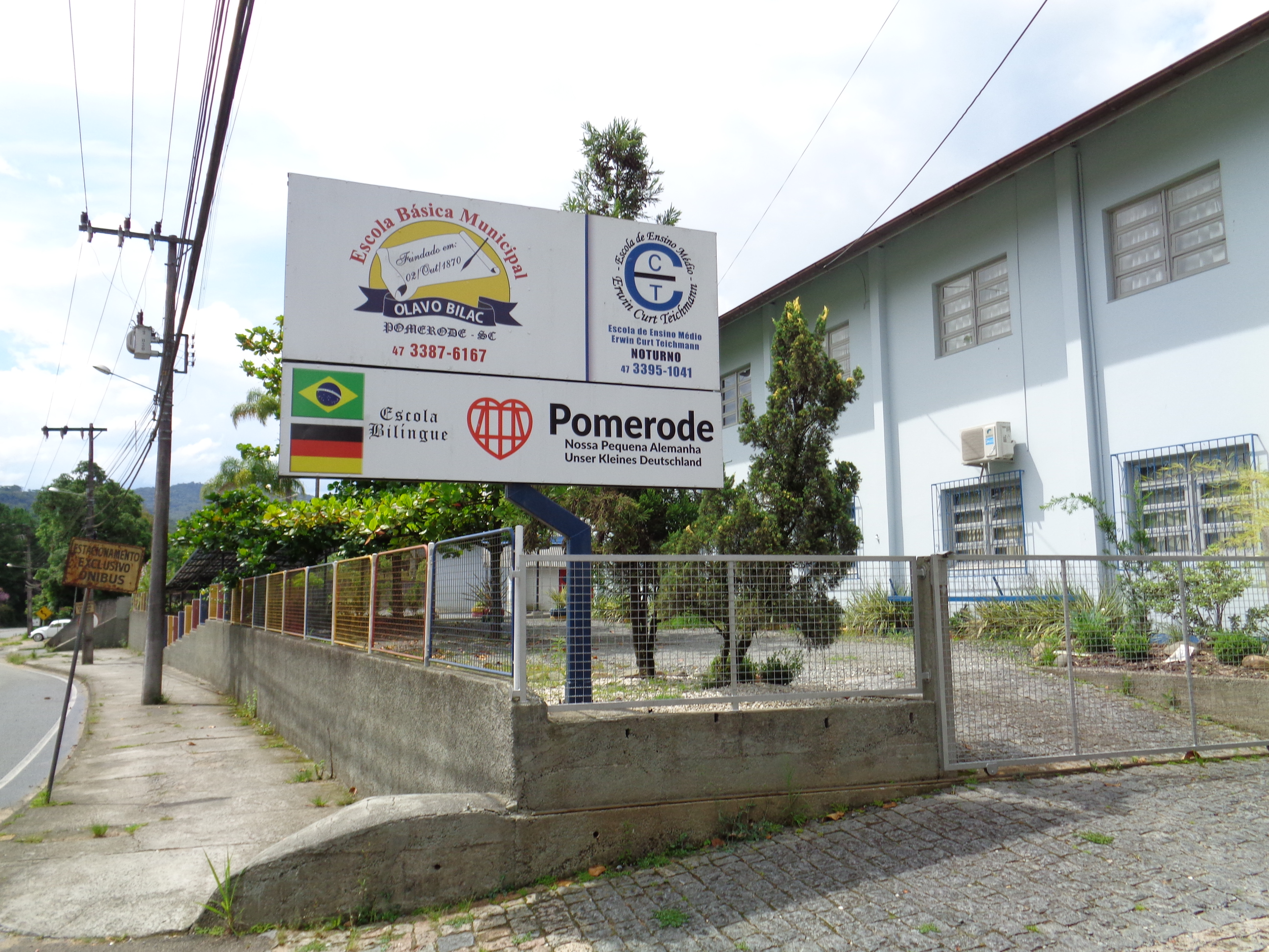 Sign indicating bilingual public school in the Portuguese and German languages in Pomerode, Santa Catarina, Brazil.